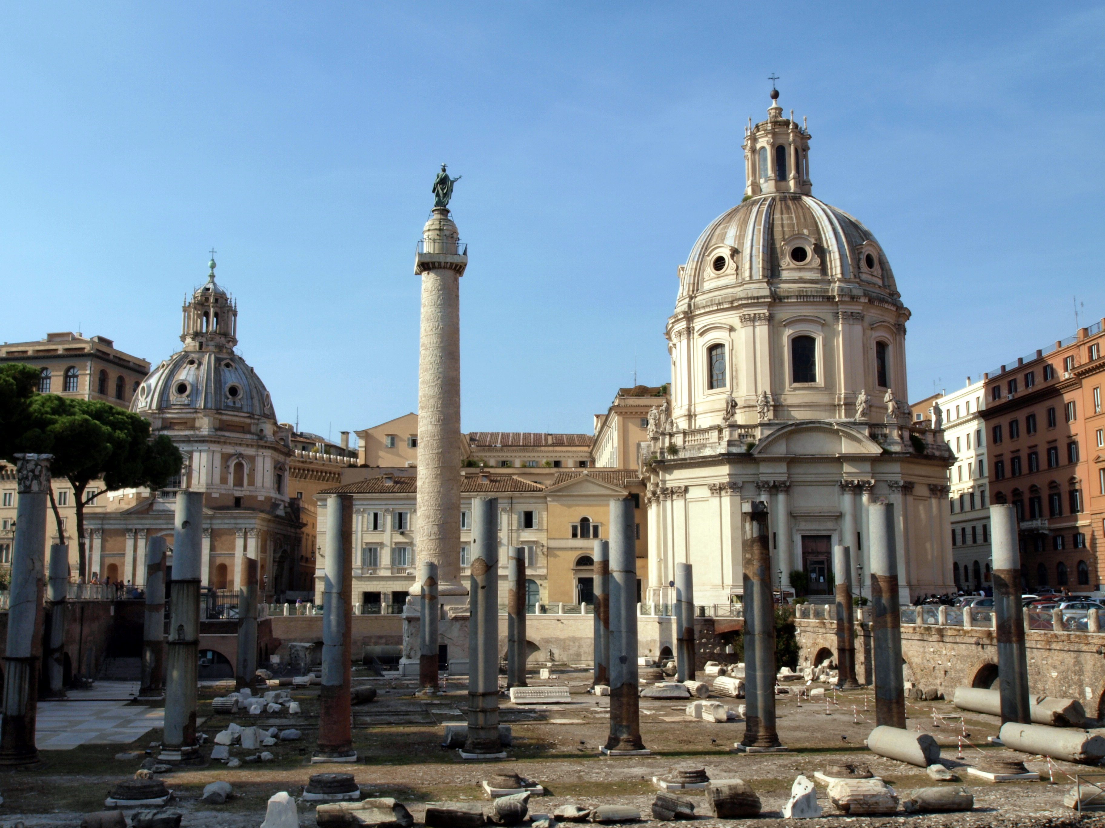 Photographed at the Trajan's Forum (Rome)